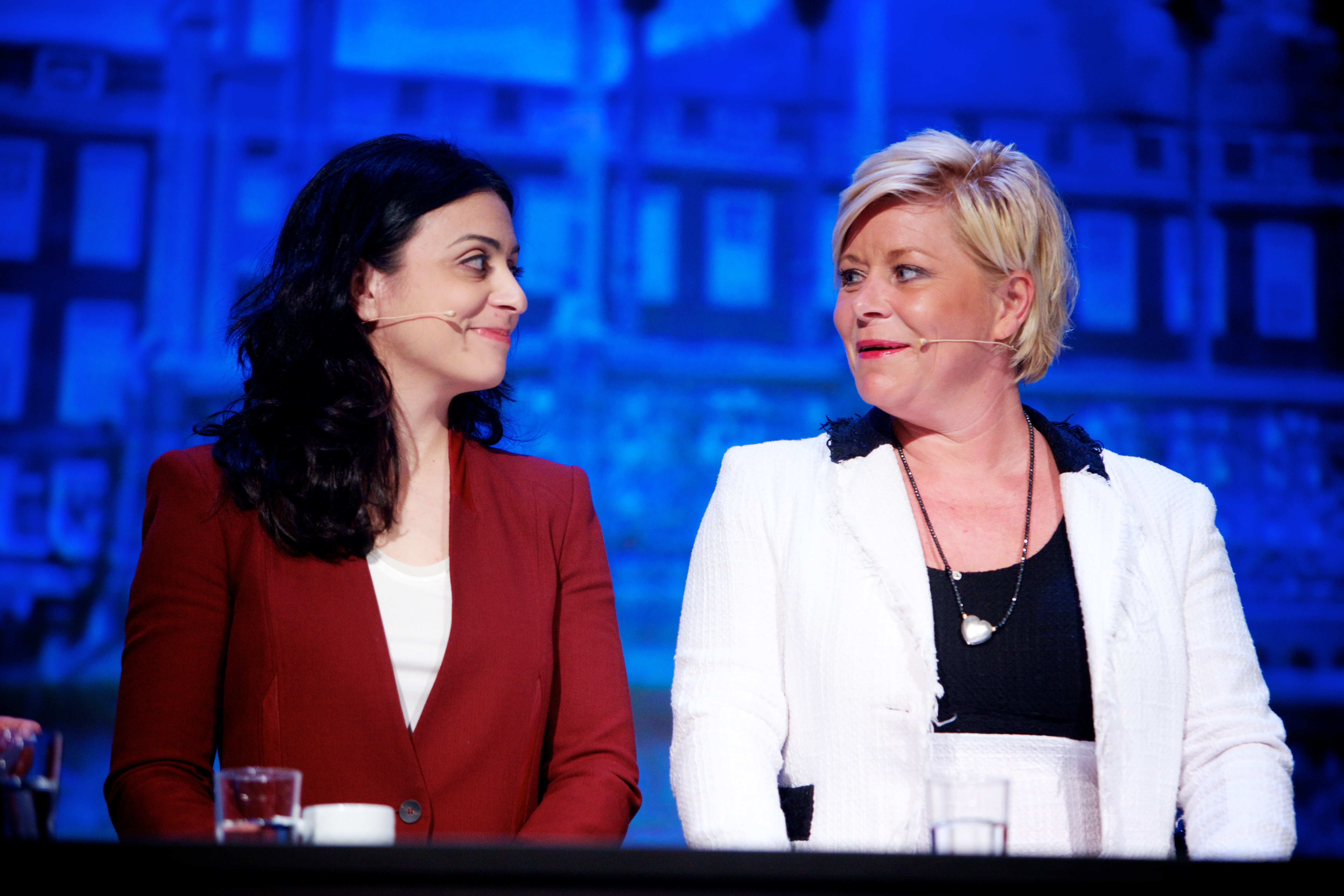 Minister of Culture Hadia Tajik and leader of the Progress Party in Norway, Siv Jensen at Nordic Media Festival 2013.